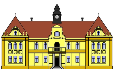 Approximate likeness of Smrčina Chateau (in 1912), between Podhradí and Krásná, Cheb District, Czech Republic.